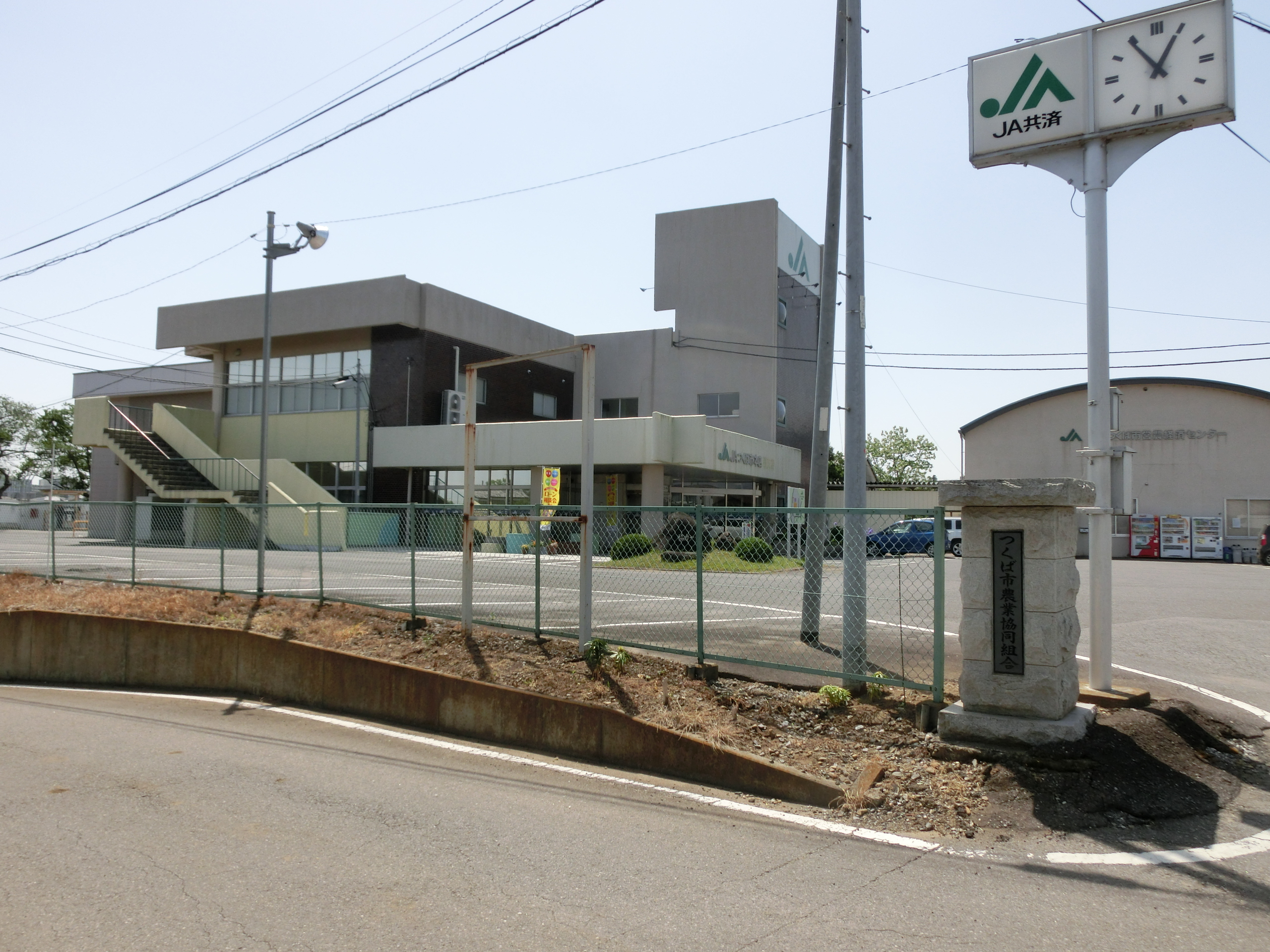 JA Tsukubashi Headquarters